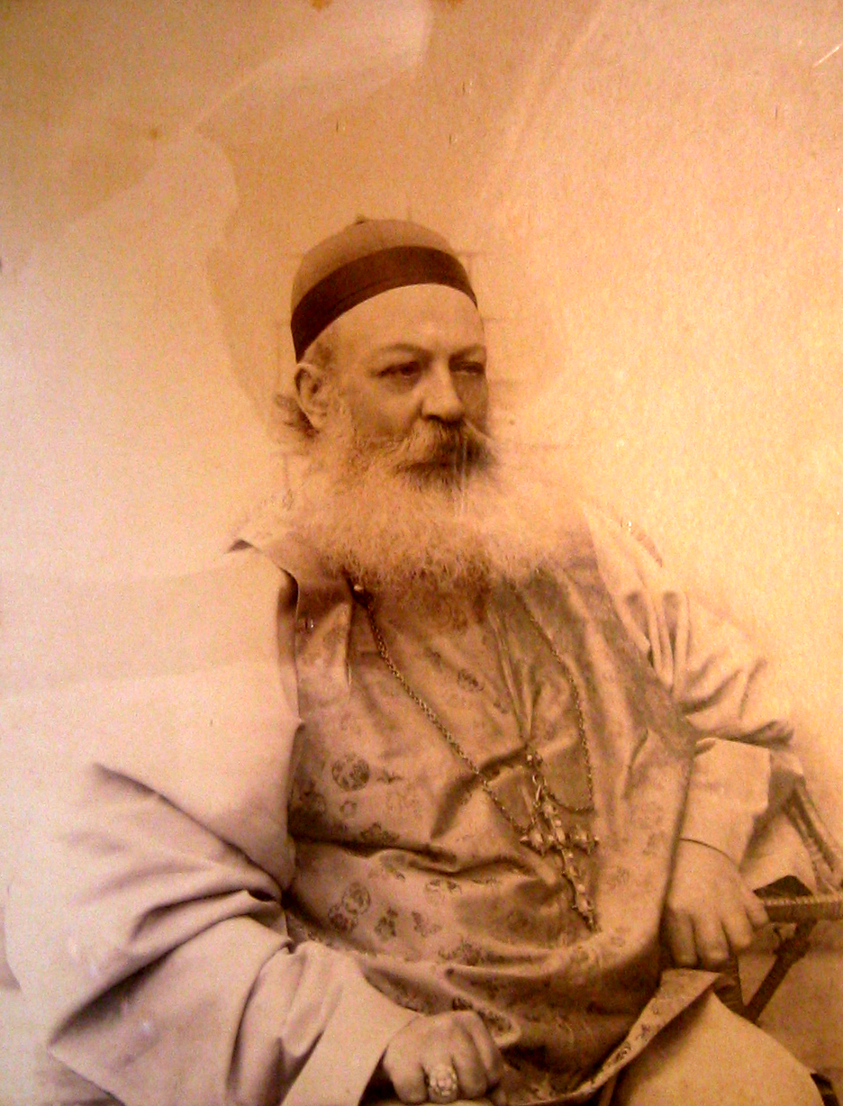 a picture of Mgr Favier in Beijin